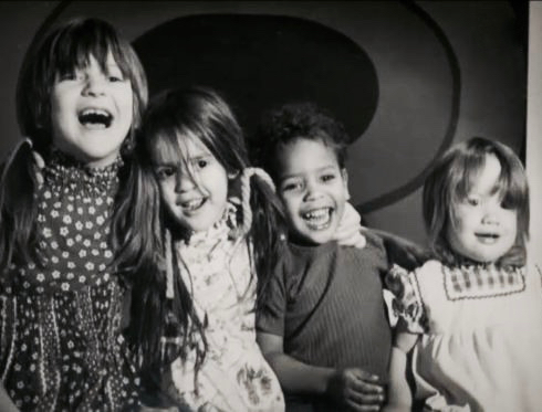 Undated childhood photo of Courtney Love with siblings Nicole, Joshua, and Jaimee.